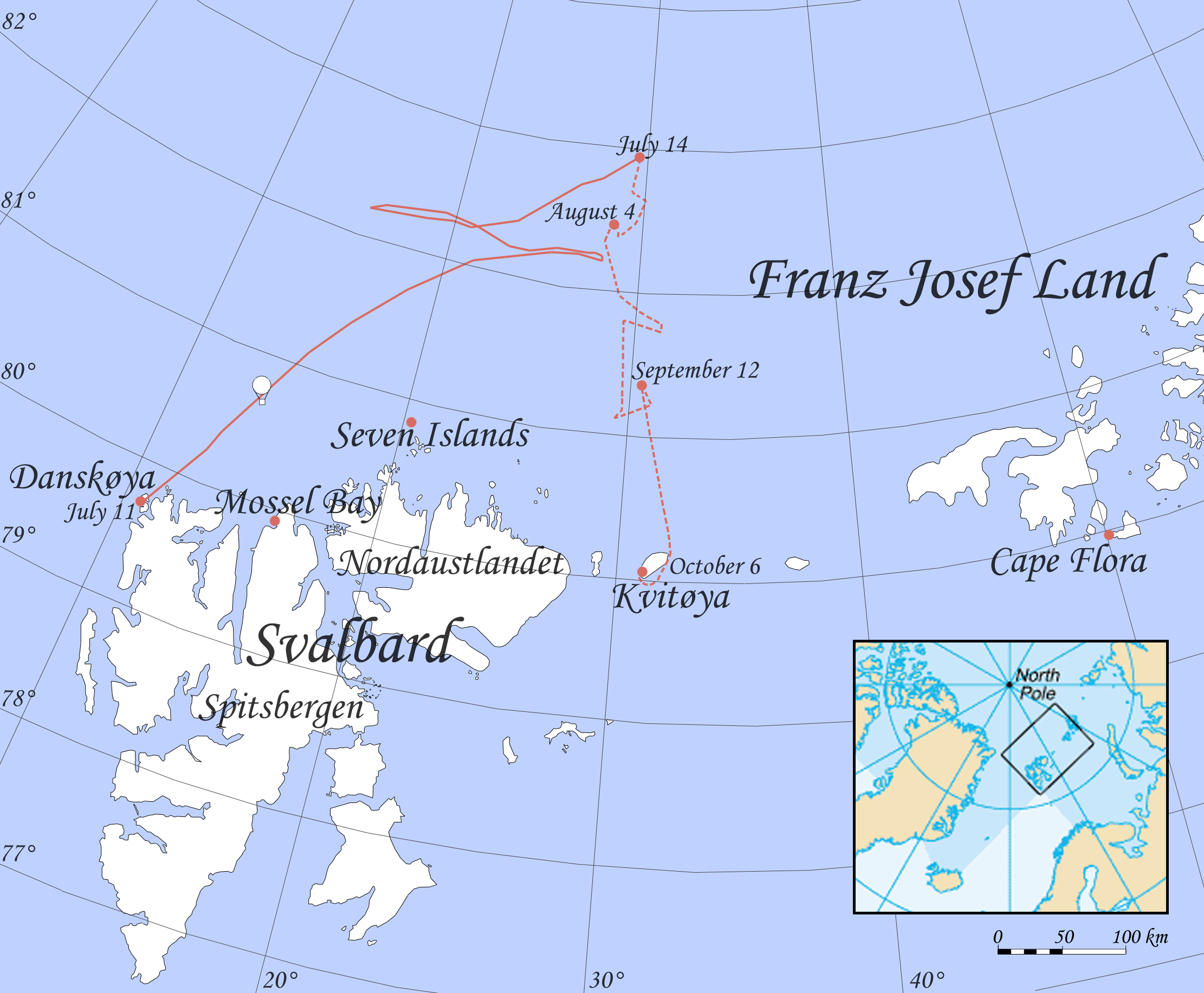 Map of Salomon August Andrée's Arctic balloon expedition of 1897.